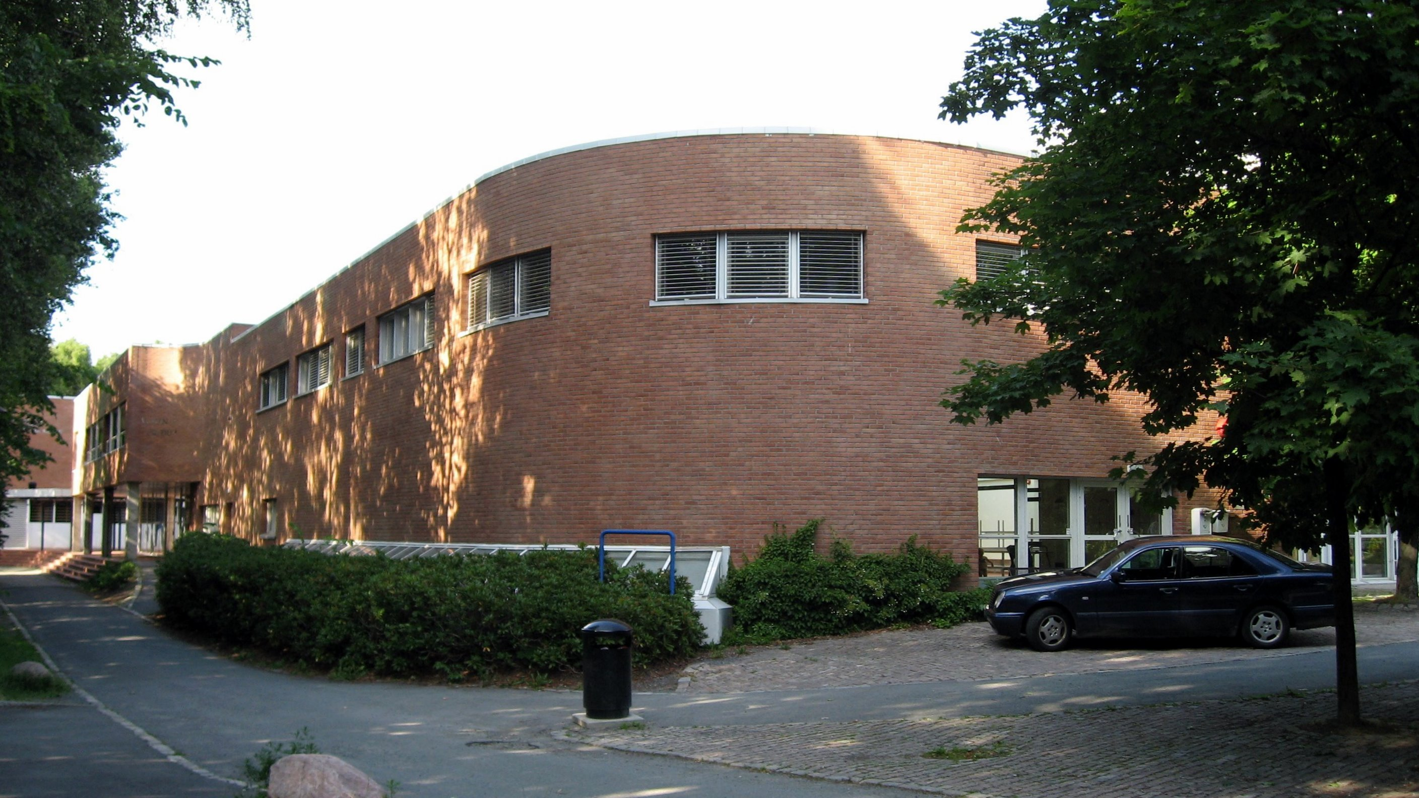 A picture of Sandvika High School taken from the school's driveway.